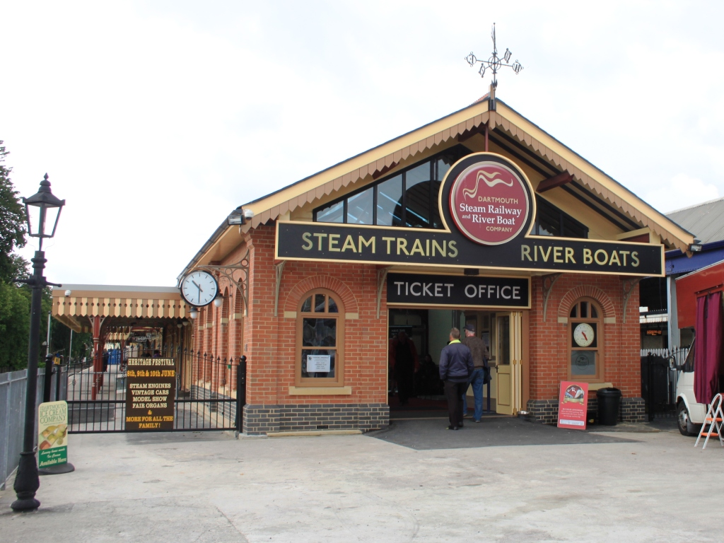 The entrance to the Dartmouth Steam Railway's station at Paignton (the main line Netwrok Rail station is just to the right). It is seen in 2012 following its almost complete rebuilding earlier that year. This brick building echoes the style of the Great Western Railway from the first half of the twentieth century whereas the previous building was a building typical of the 1970s when it was constructed.